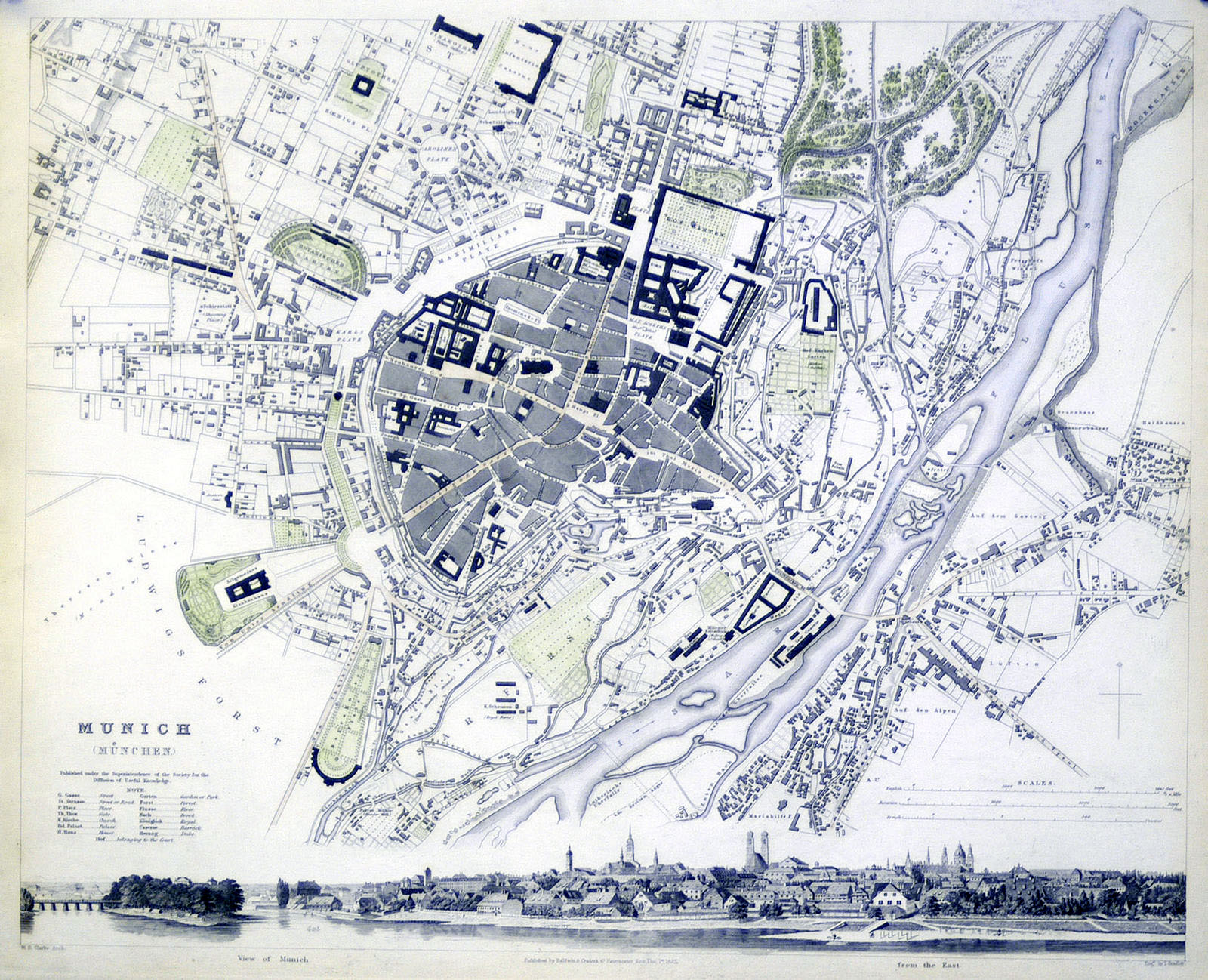 Map of Munich from 1844 published in the atlas entitled "Maps Of The Society For The Diffusion Of Useful Knowledge"